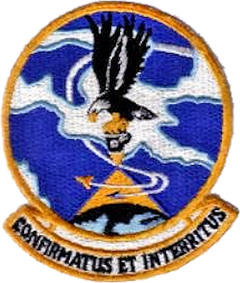 160th Tactical Fighter Squadron - Emblem RF-84F era